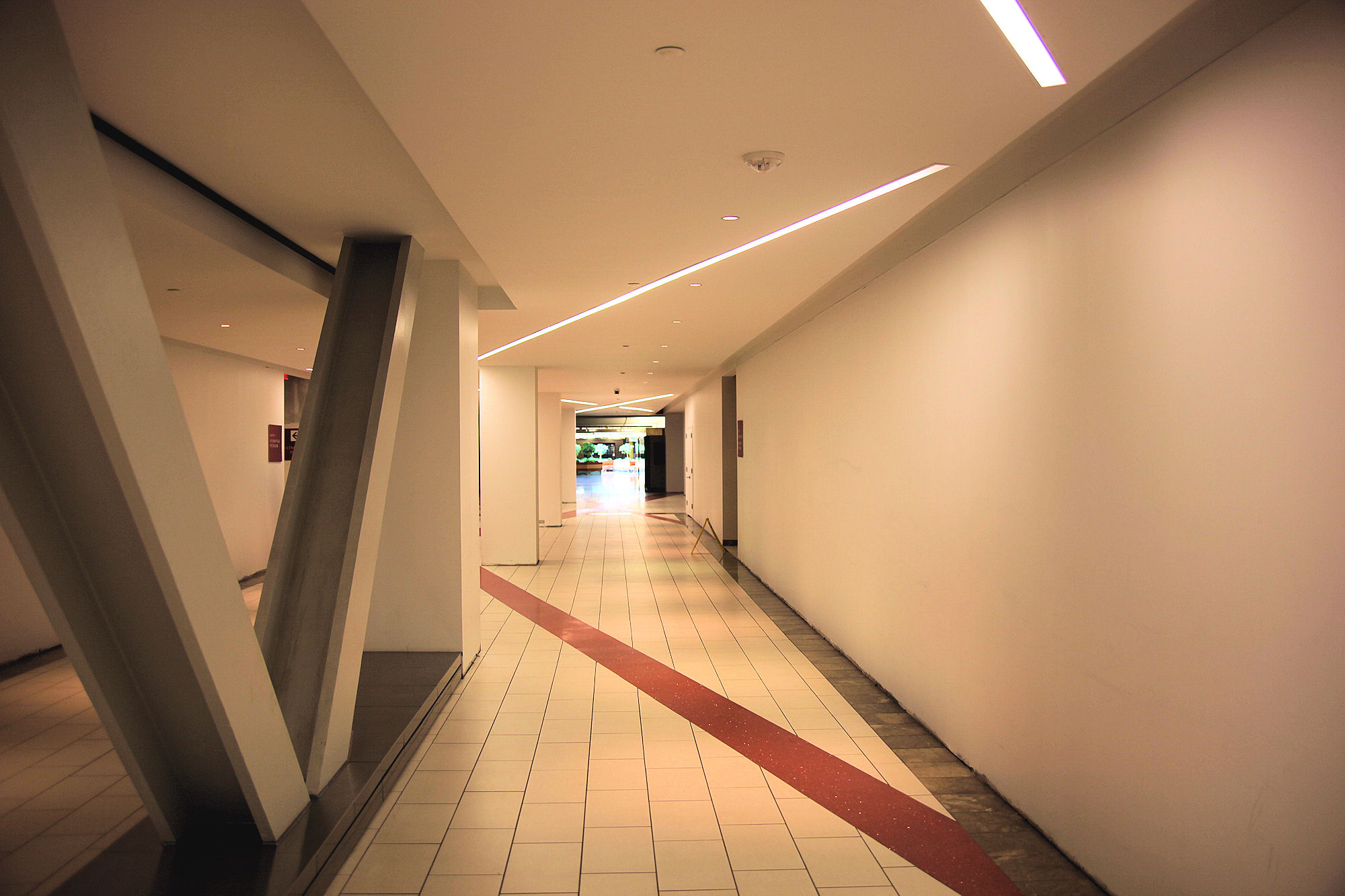 "La Promenade" shopping mall and food court undernearth L'Enfant Promenade SW in Washington, D.C., in the United States. This retail space, which lies beneath L'Enfant Plaza Hotel and L'Enfant Plaza itself and connects the four buildings on the place to one another as well as to the L'Enfant Plaza Metro (subway) station, underwent a significant renovation beginning in 2010. This image shows the renovation nearing completion in February 2011. L'Enfant Plaza was designed by I. M. Pei for developer William Zeckendorf in the early 1960s. The L'Enfant Plaza Hotel was designed by Vlastimil Koubek, and built in 1971.